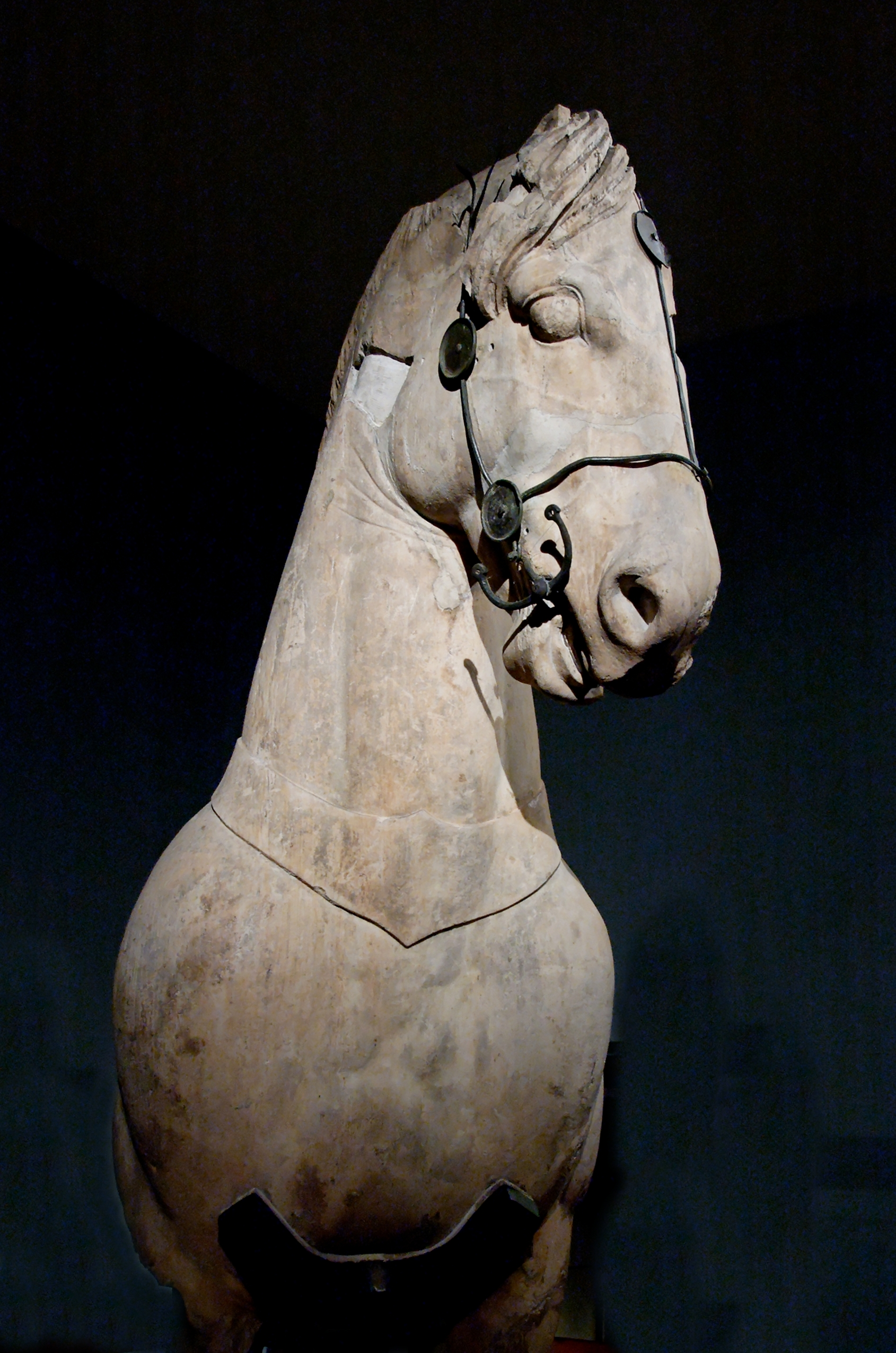 Fragmentary horse from the colossal four-horses chariot group which topped the podium of the Mausoleum at Halicarnassos.